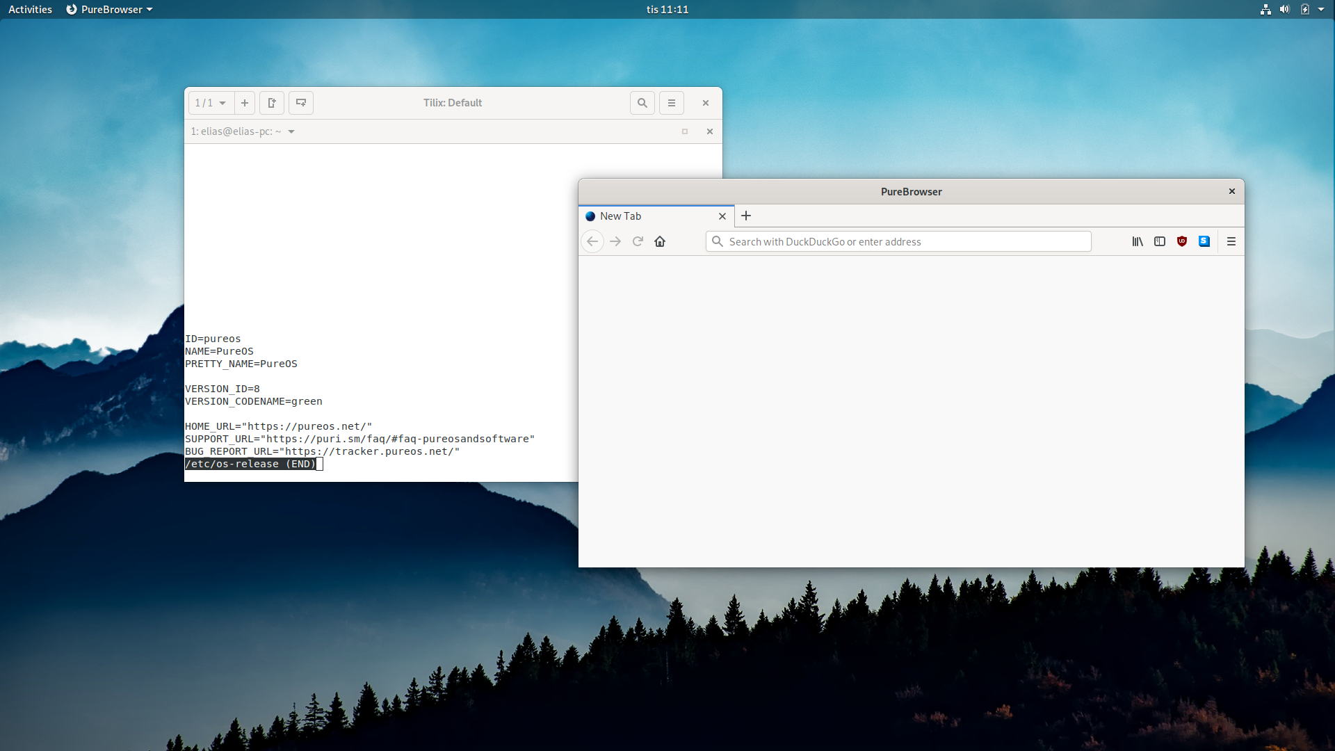 Screenshot from PureOS version 8